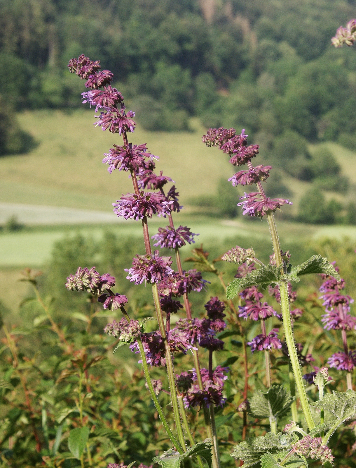 Salvia verticillata, Hohenlohe, Germany